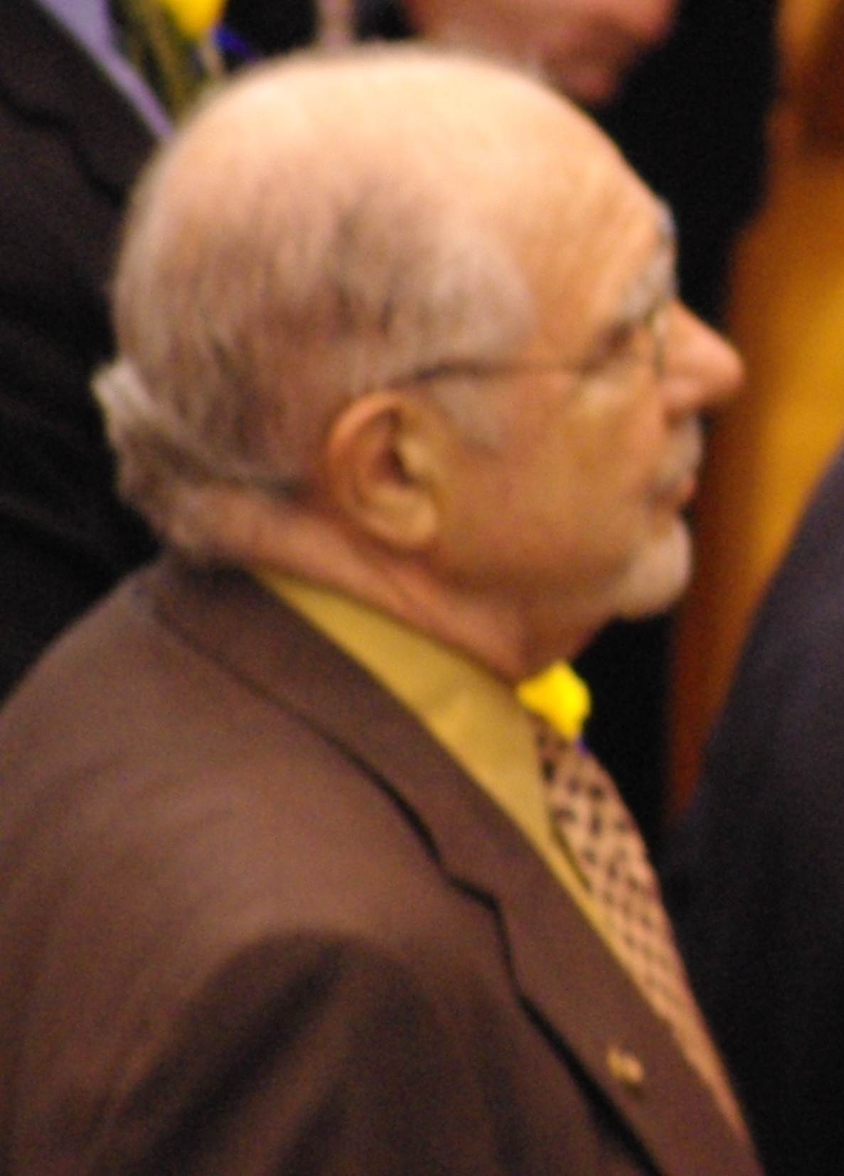 Bill Morrisette of the Oregon State Senate